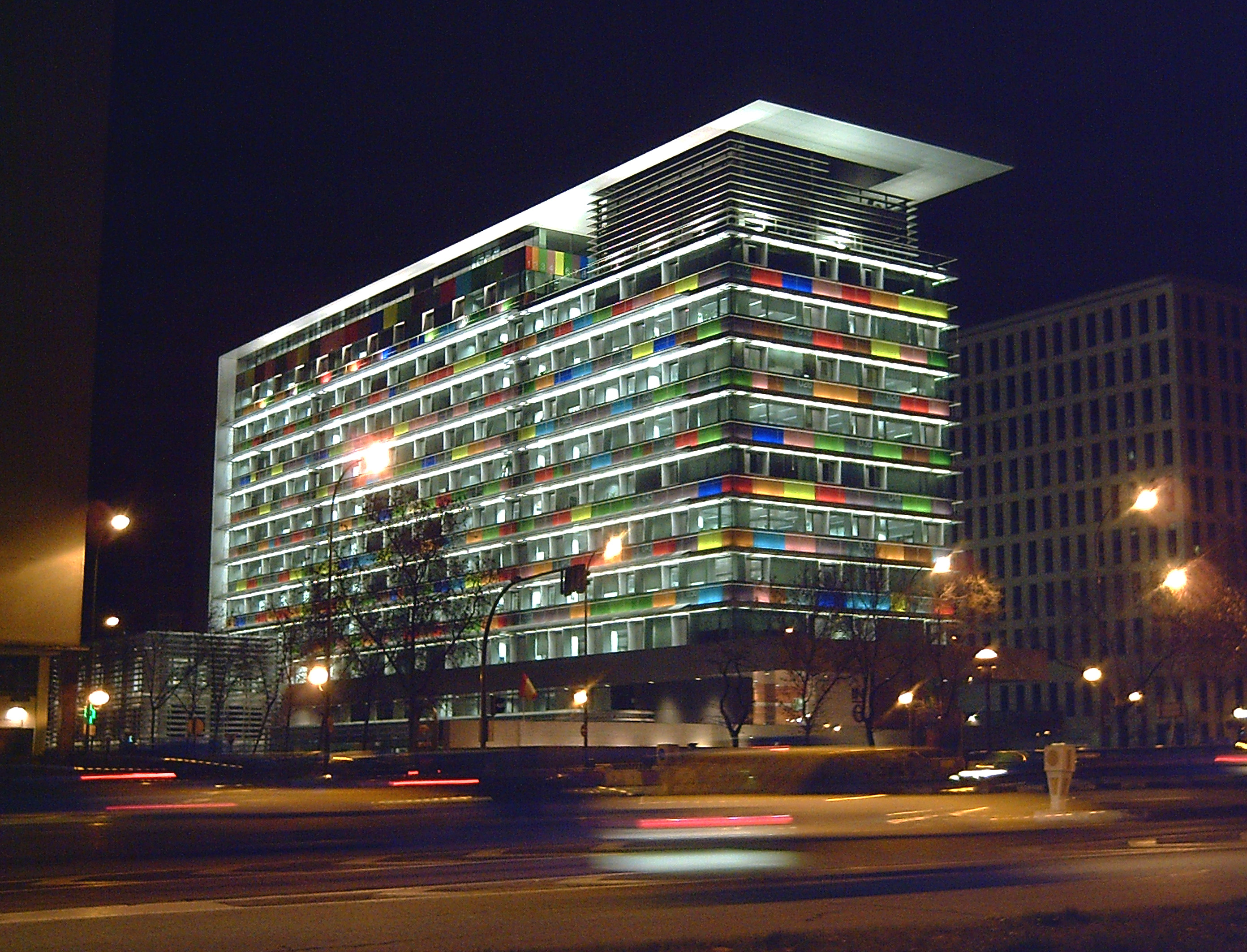 Night view of the Spanish National Statistics Institute headquarters, at 183 Paseo de la Castellana (avenue) in Madrid.